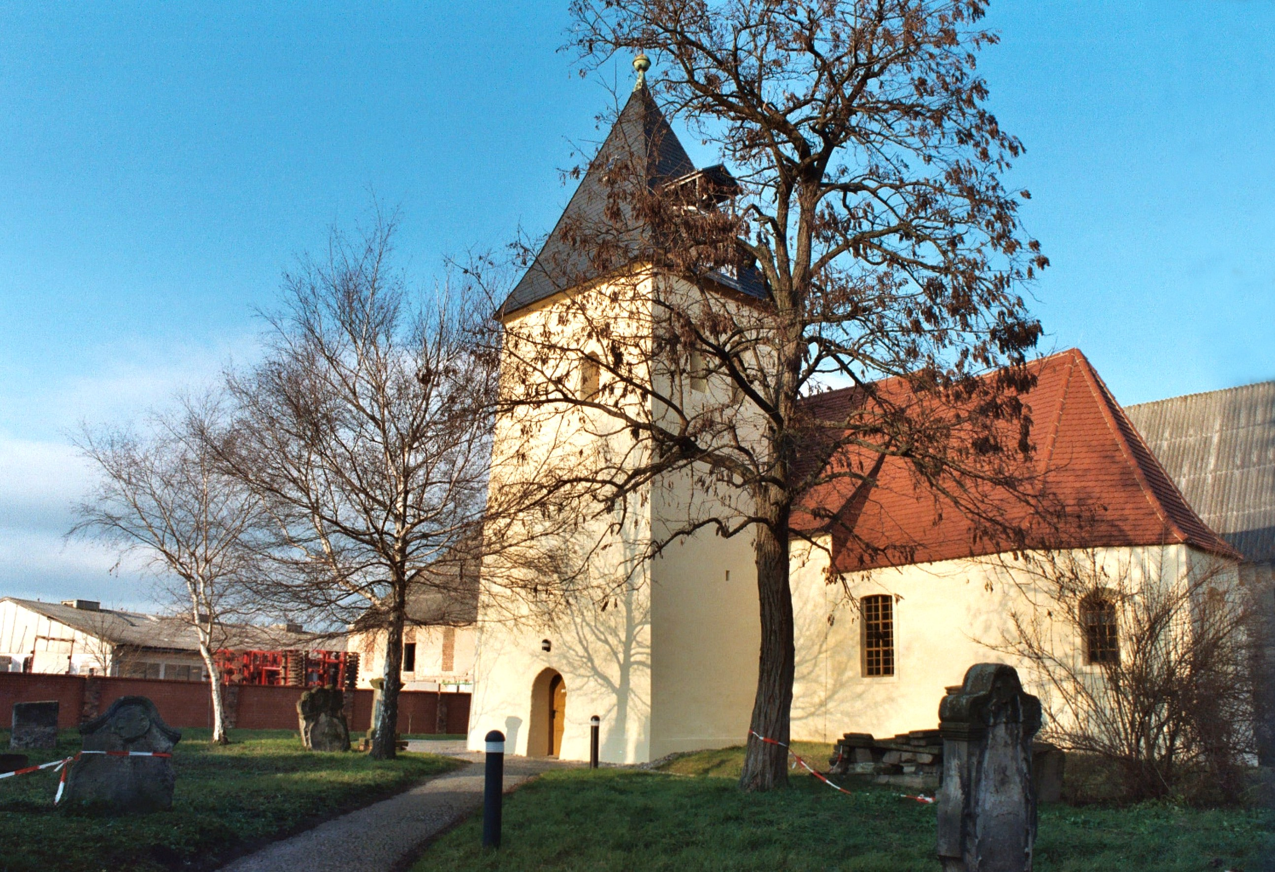 Eggersdorf (Bördeland), the village church St.Martin